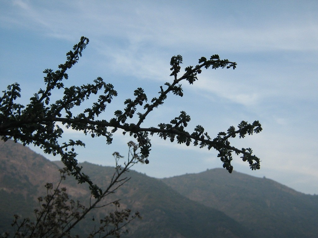 Porlieria chilensis branch with tinny flowers Cajon de Maipo near san José de Maipo.